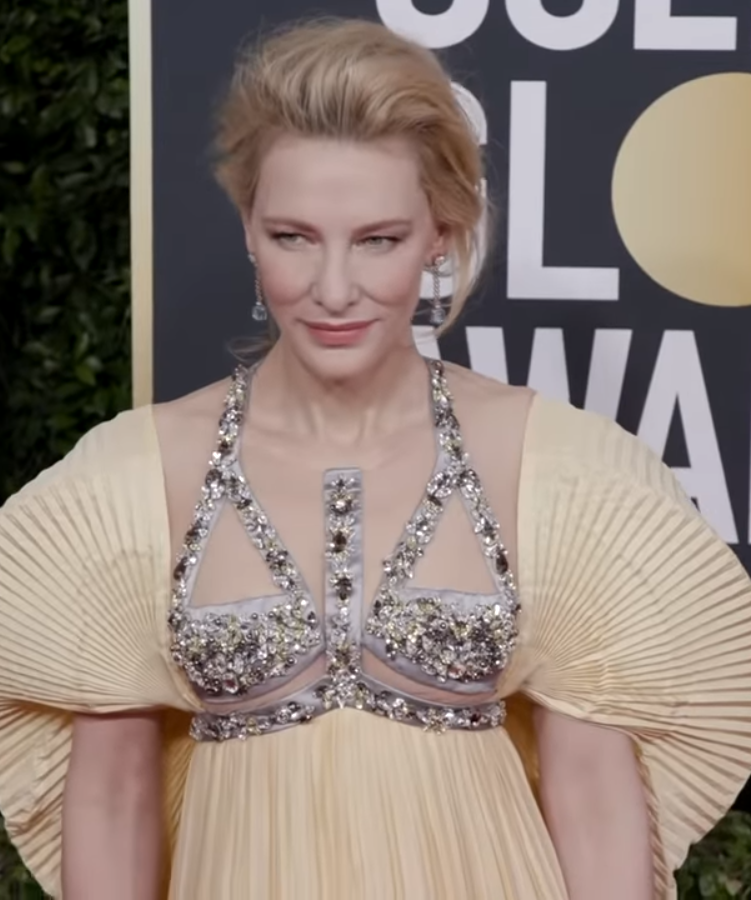 Cate Blanchett at Golden Globes Red Carpet 2020